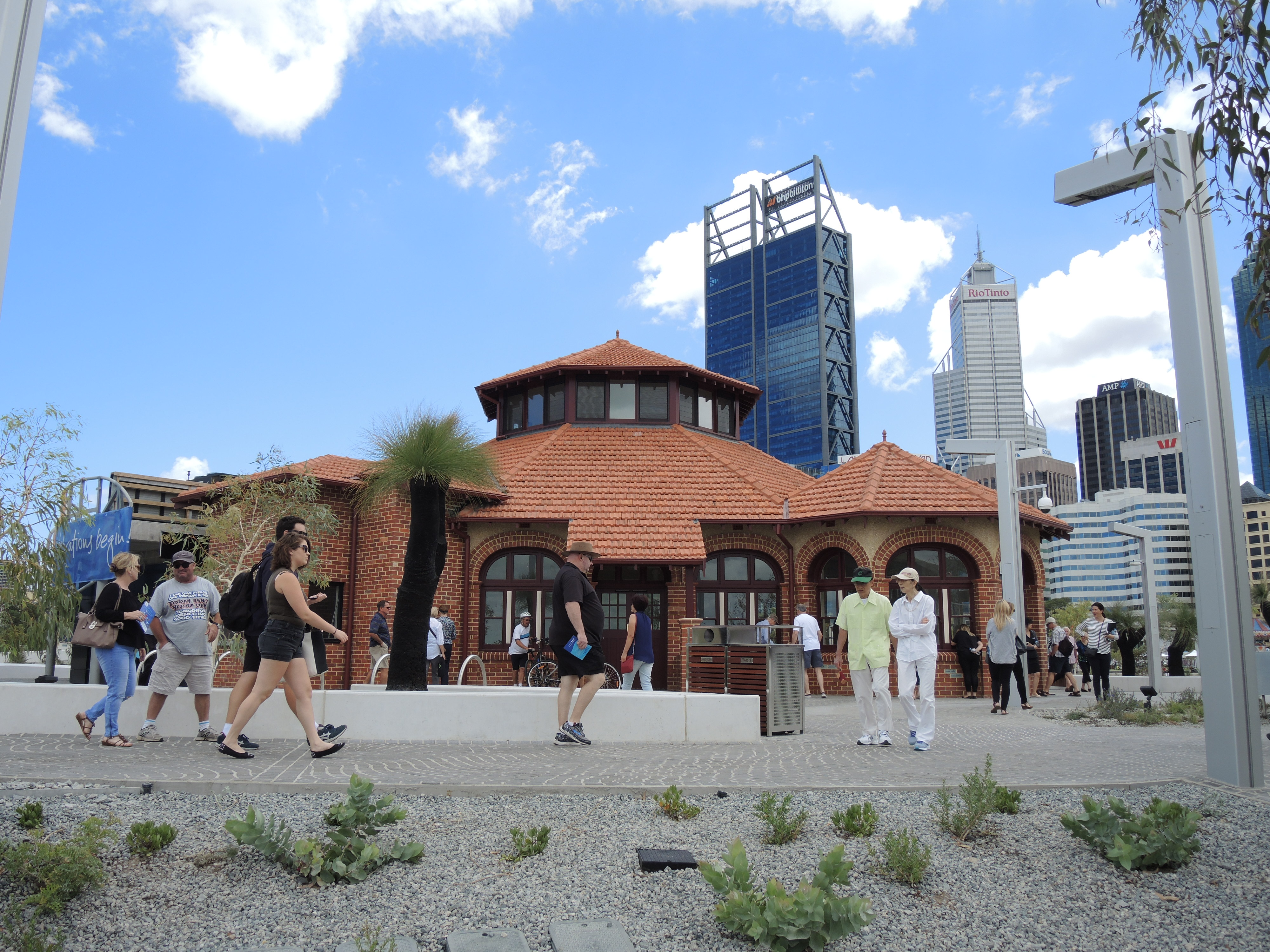 Elizabeth Quay in Perth, Western Australia, 1 February 2016. The Kiosk